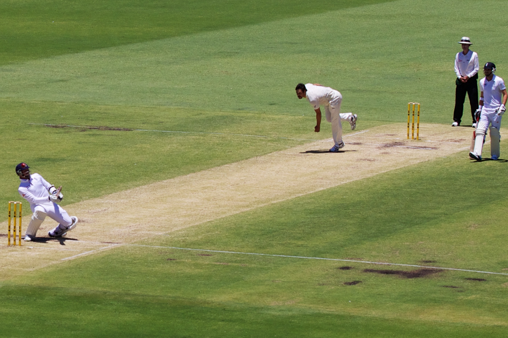 Mitchell Johnson bowling a bouncer to Graeme Swann at the WACA during the 2013-14 Ashes in Australia